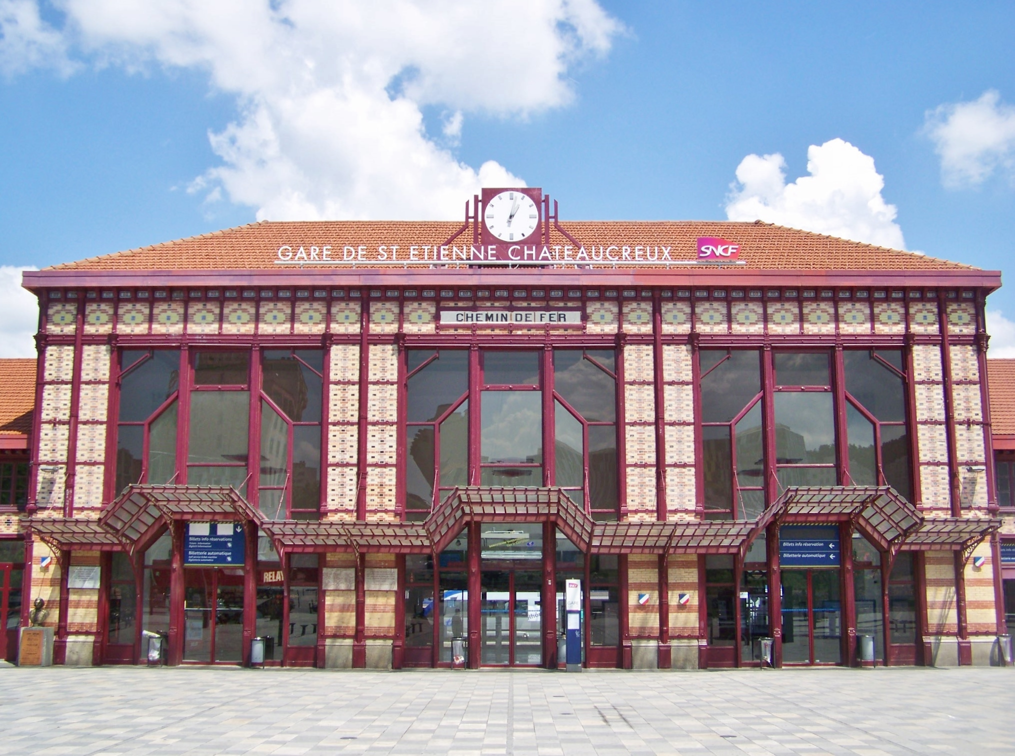 Sight of the Saint-Étienne-Châteaucreux railway station, main station of the French city of Saint-Étienne, in Loire.